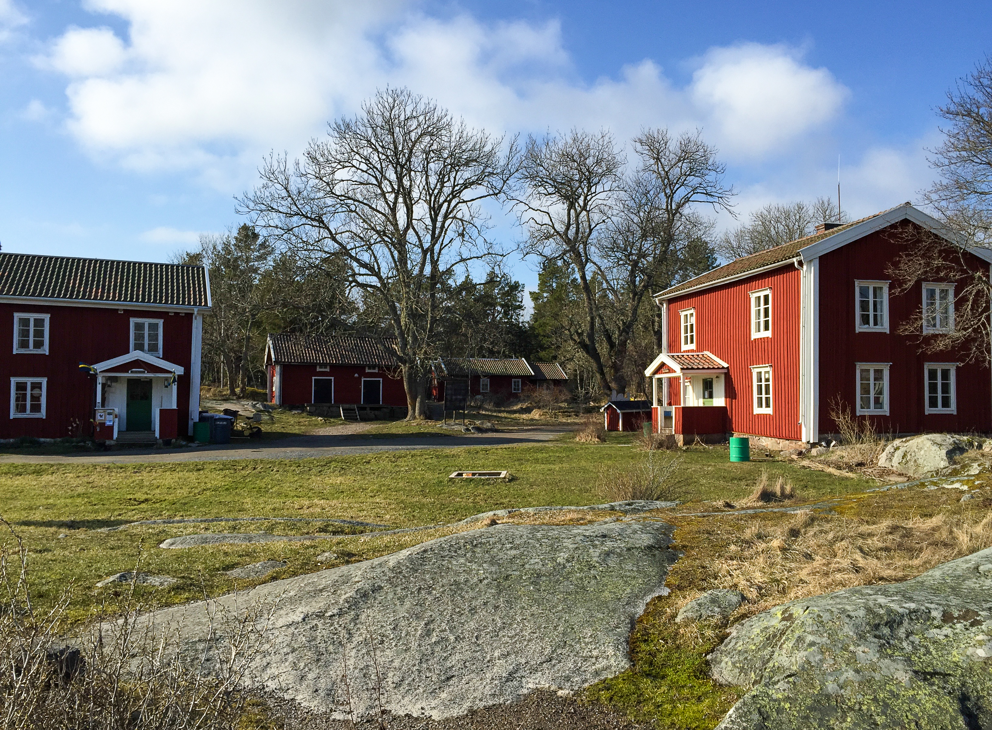 Showing Storgårn and Lillgårn on Vässarö.